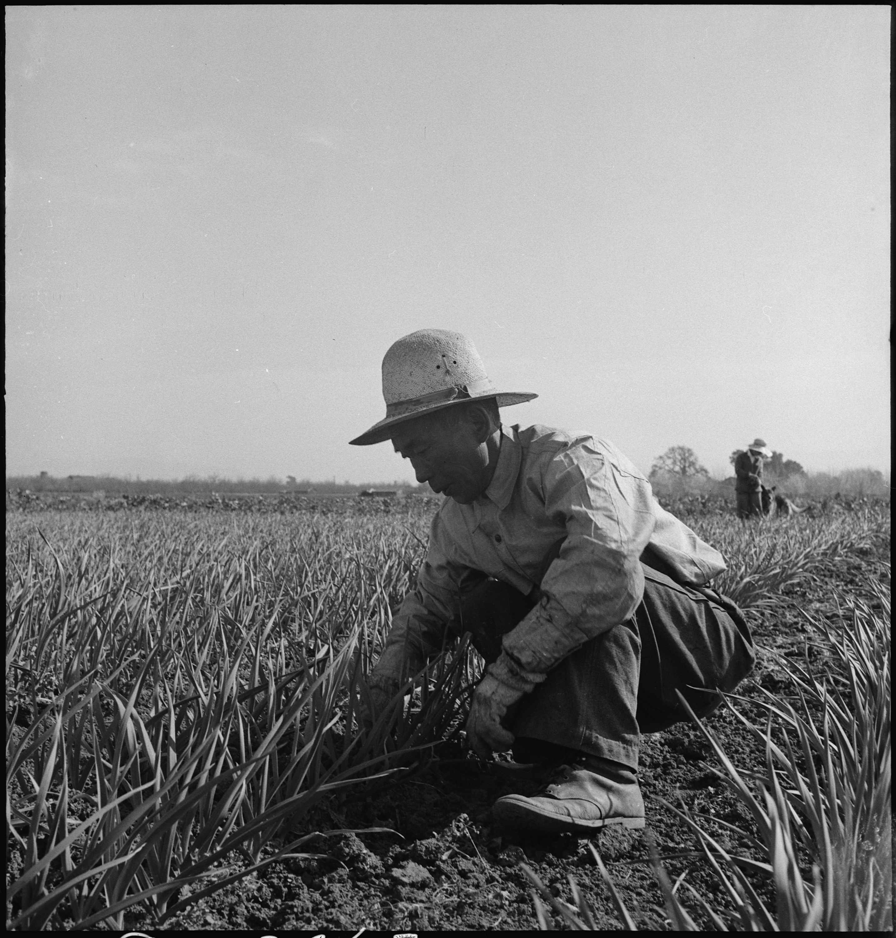 Scope and content: The full caption for this photograph reads: Mountain View, California. Weeding garlic field several weeks before evacuation. Farmers and other evacuees of Japanese ancestry will be given opportunities to continue their callings in War Relocation Authority centers where they will spend the duration.